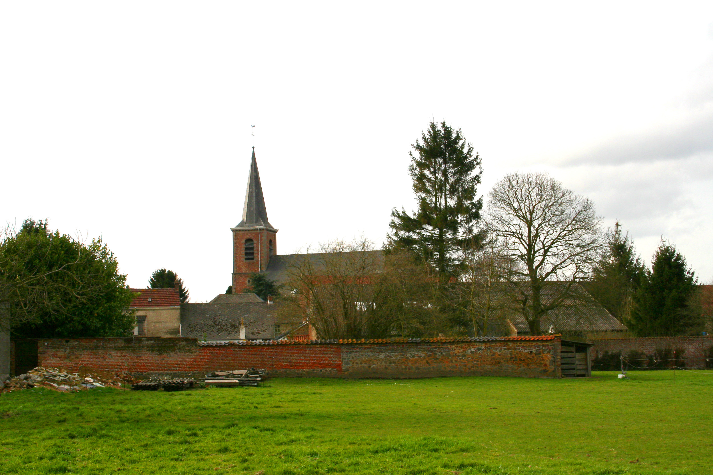 Cambron-Saint-Vincent (Belgium), the town viewed from the Rue d’Ath.